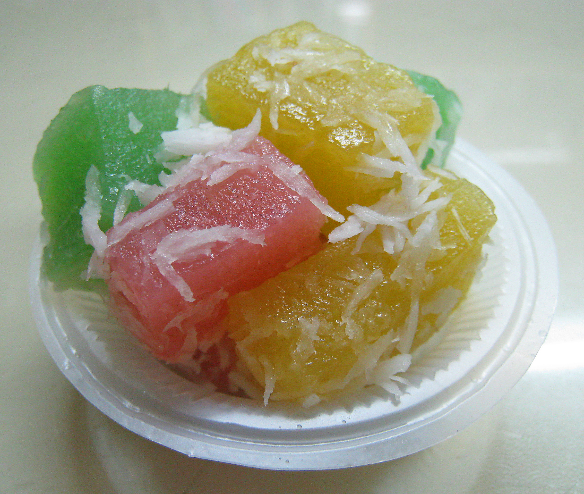 Cendil, Javanese traditional cake made of ketan rice flour, sugar, and grated coconut. Indonesia.